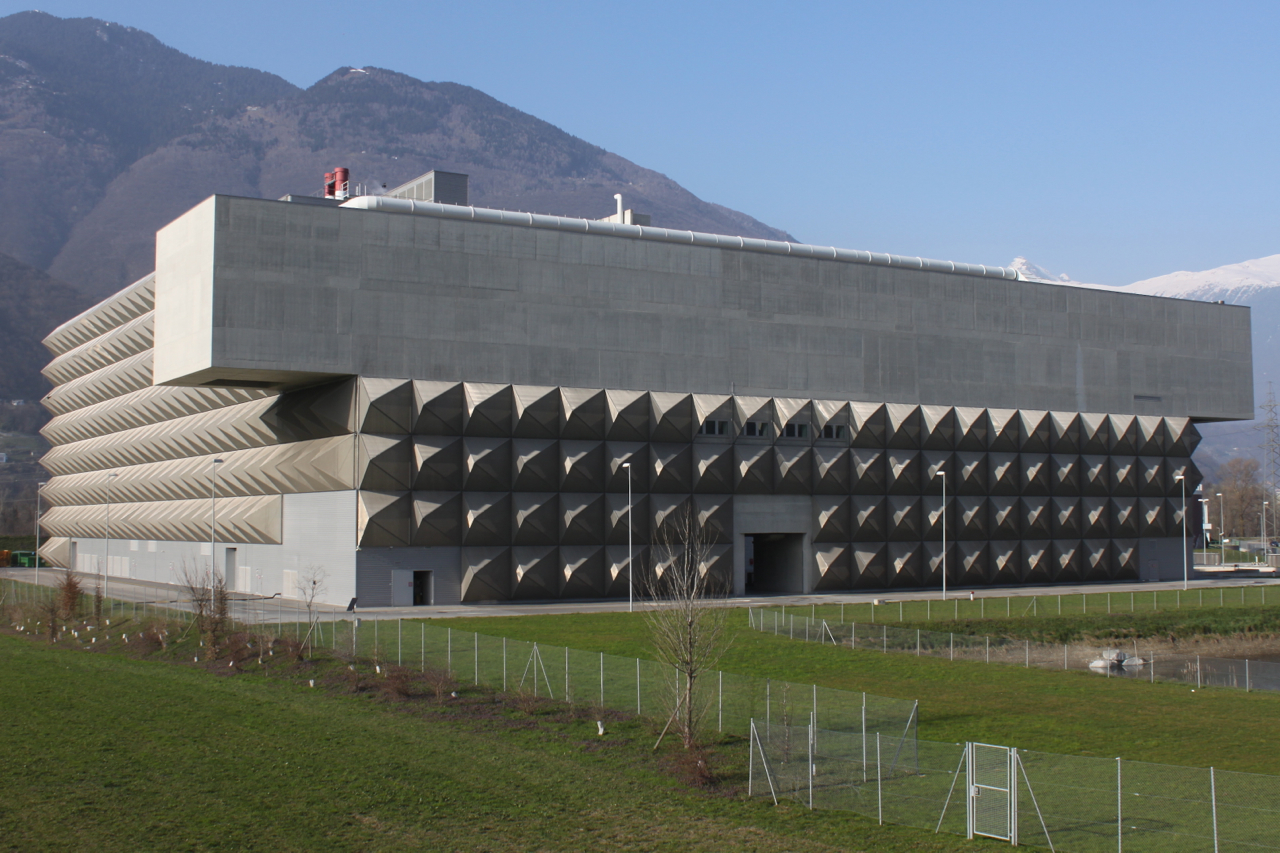 Incineration plant at Giubiasco.